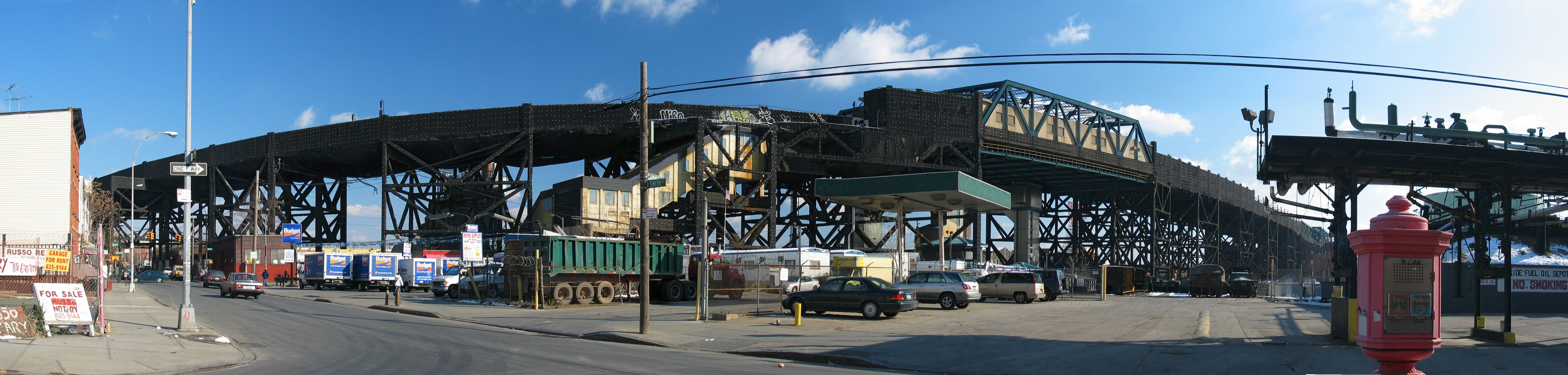 Smith and 9th Street elevated station. Panoramic image.